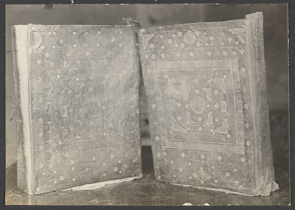 Salar Quran in Kehtsikung, Tsinghai. "Koran brought by Salars from Samarkand in 1371. Vol. I on left in Russian leather binding. Vol. II in ordinary cowhide." Gai zi Mosque, Jishi (near), Qinghai Sheng, China Xunhua Salarzu Zizhixian, Qinghai Sheng, China